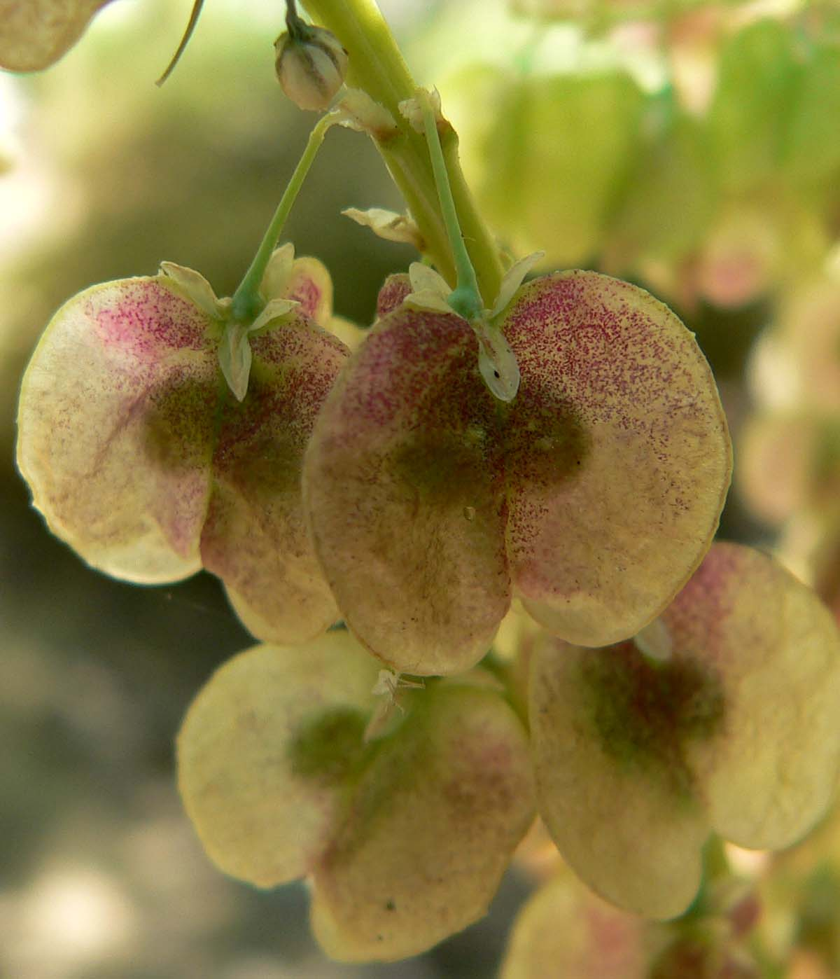 Photo of Nolina microcarpa seedpods at the Springs Preserve garden in Las Vegas, Nevada